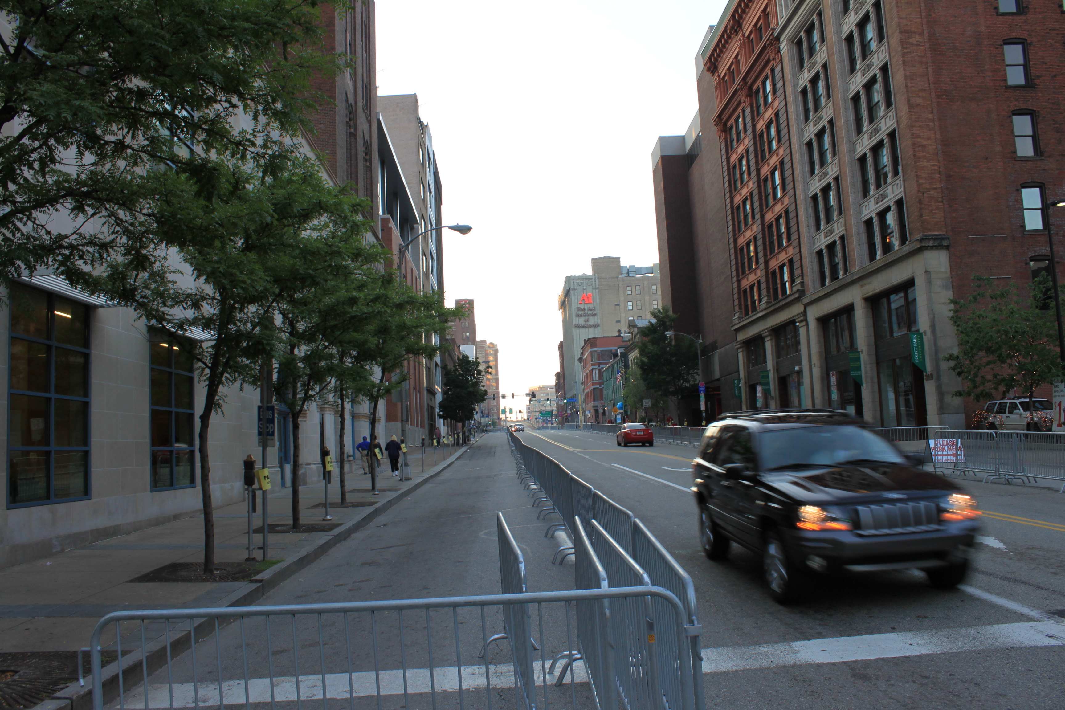 Near Empty Blvd of Allies